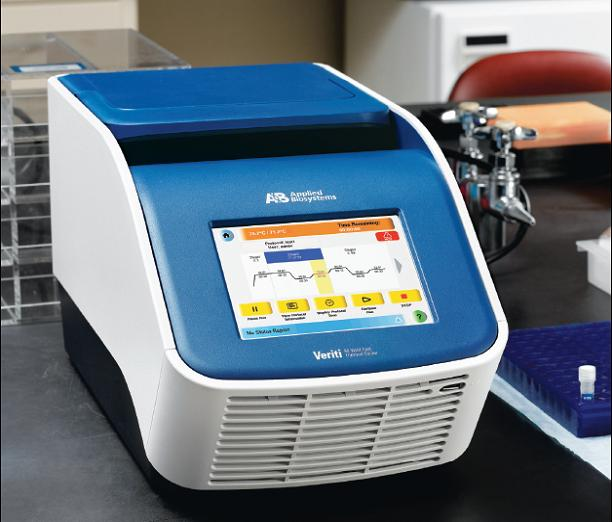 Thermal Cycler